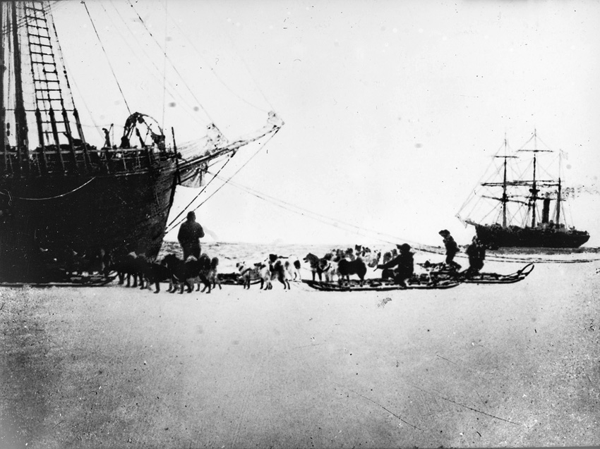 Scott's expedition ship Terra Nova visiting Fram in the Bay of Whales, February 1911. Photo: The Amundsen Expedition